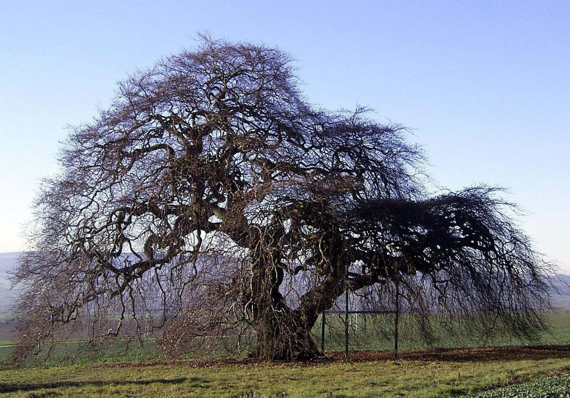 Dwarf Beech, 200–210 years old, near Gremsheim/Bad Gandersheim in Lower Saxony (Germany). A very famous and well-known Dwarf-Beech. Girth of trunk: 6 m, Diameter of treetop: 25 m, Hight: 14 m.